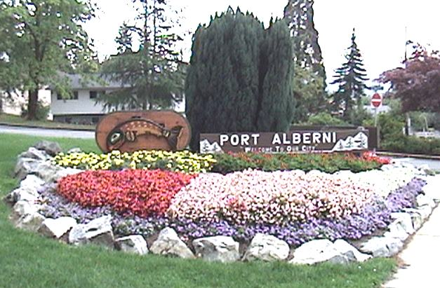 A picture I took of entering Port Alberni.